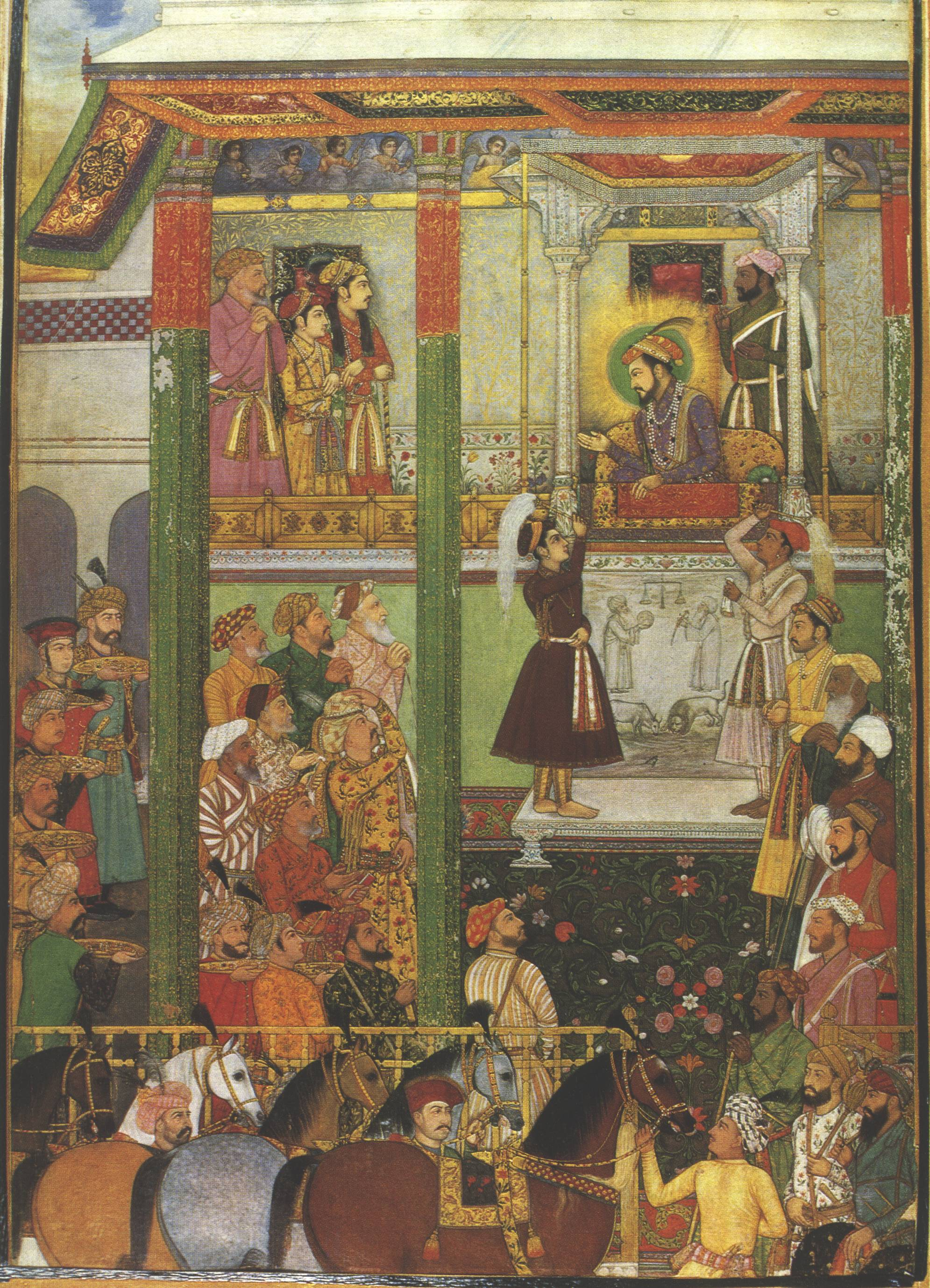 Illustrations from the 1636 Padshahnama of Shah Jahan showing Moghul Soldier & Civilian Costume. Illustrations to the text of Abdul Hamid Lahori